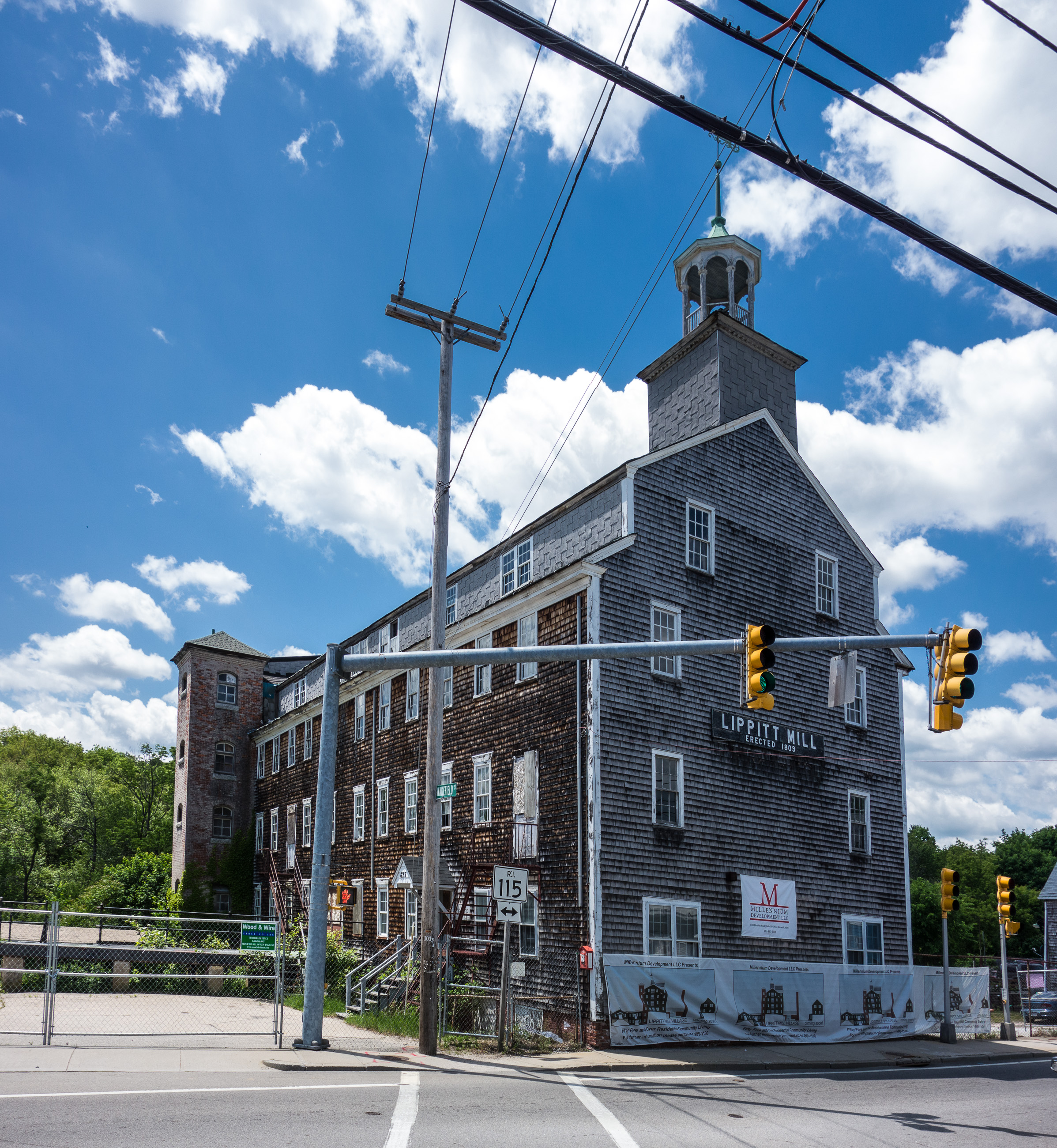 Lippitt Mill in 2014.